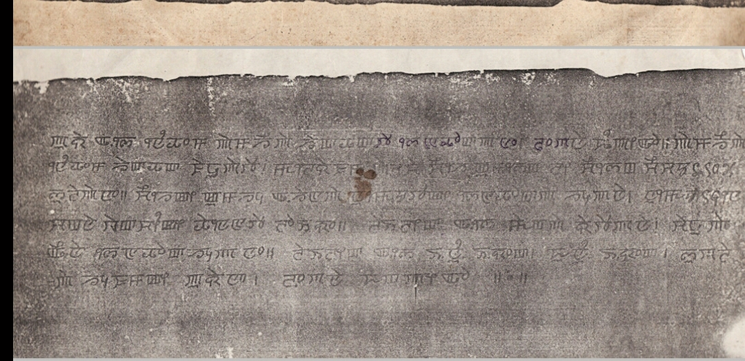 Ancient manuscript that describes "ꯋꯥꯛꯆꯤꯡ(Wakching)" as the first month of Meetei Thapalon(Calendar)